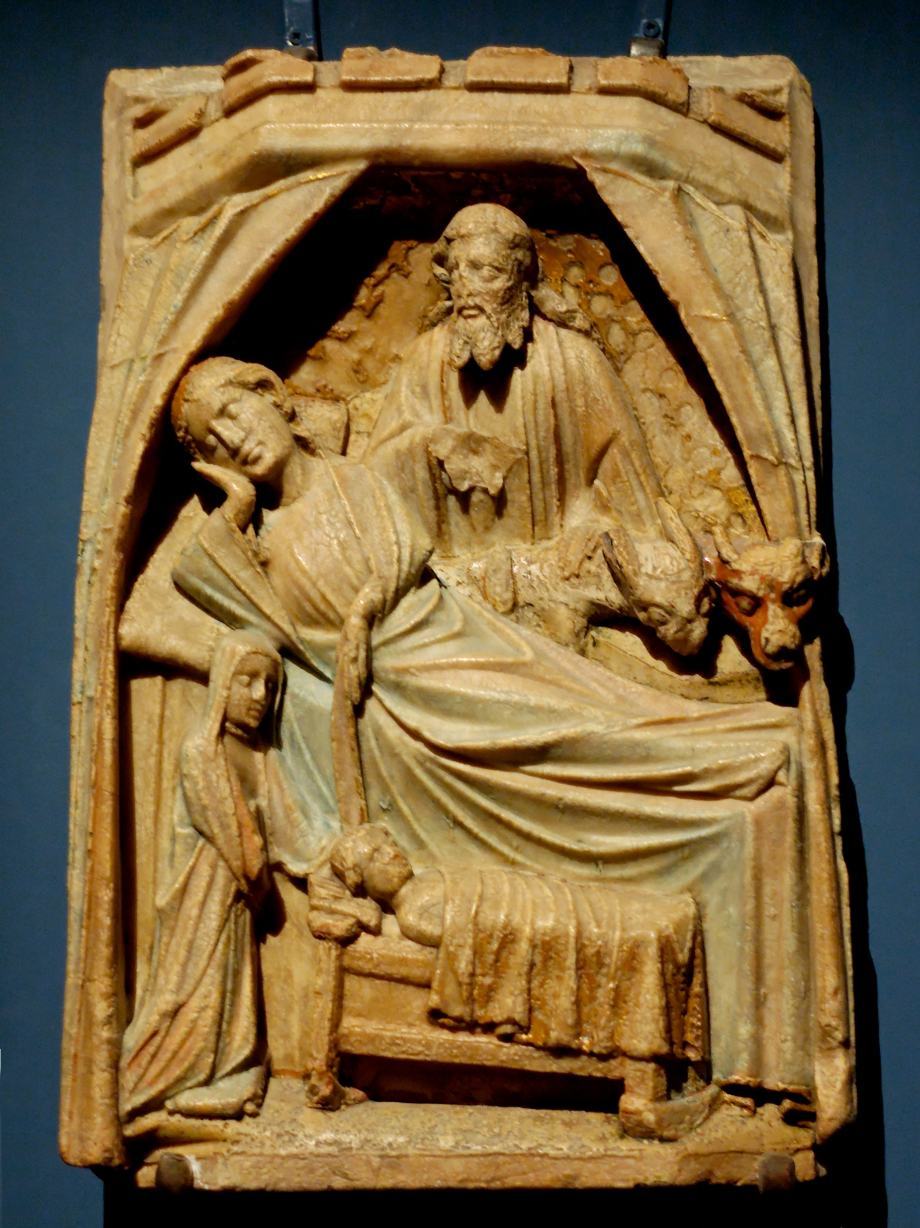 Nativity, part of an altar piece.